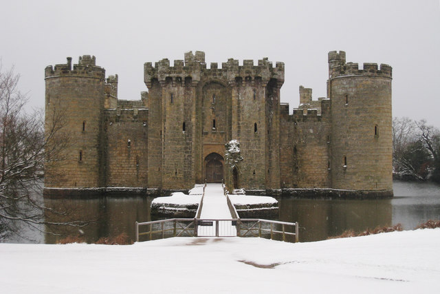 Bodiam Castle Rear and now only entrance. Keywords: snow